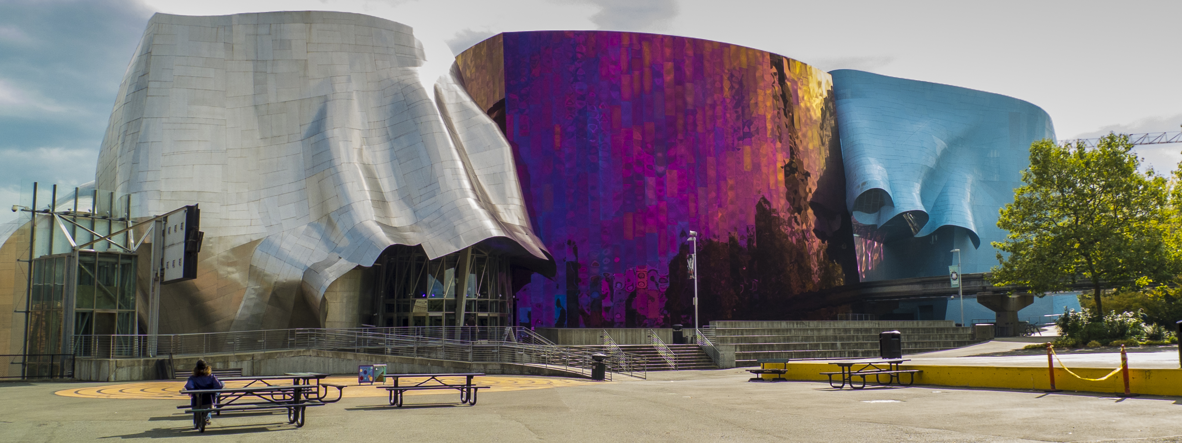 The Experience Music Project at the Seattle Center.